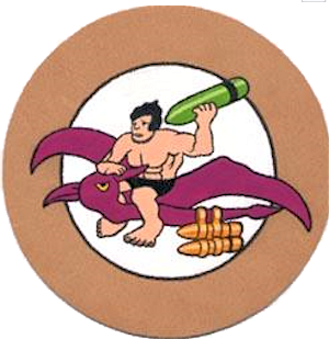 Emblem of the 407th Bombardment Squadron (World War II)